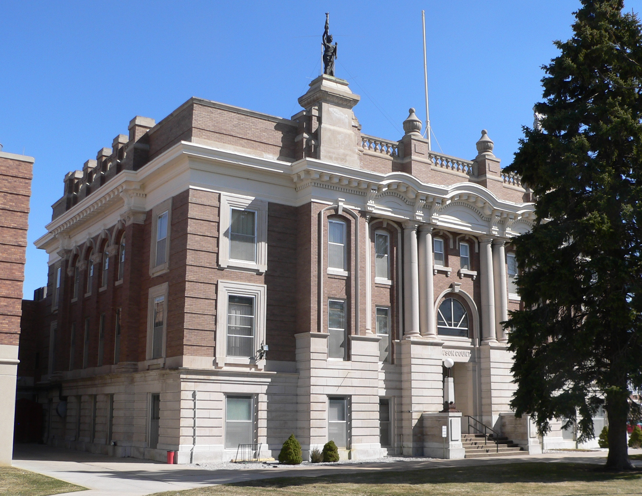 Dawson County Courthouse in Lexington, Nebraska; seen from the northwest. The courthouse was designed in Beaux-Arts style by architect William F. Gernandt and built in 1913. It is listed in the National Register of Historic Places.